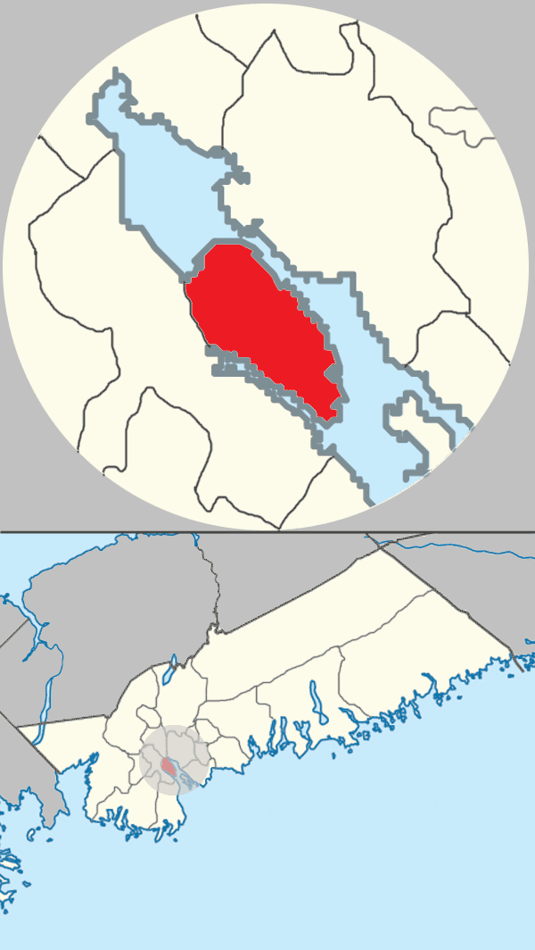 Updated map of Halifax Peninsula in Halifax, Nova Scotia to standard colours, higher resolution, using